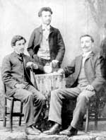 IMARO revolutionary/ies